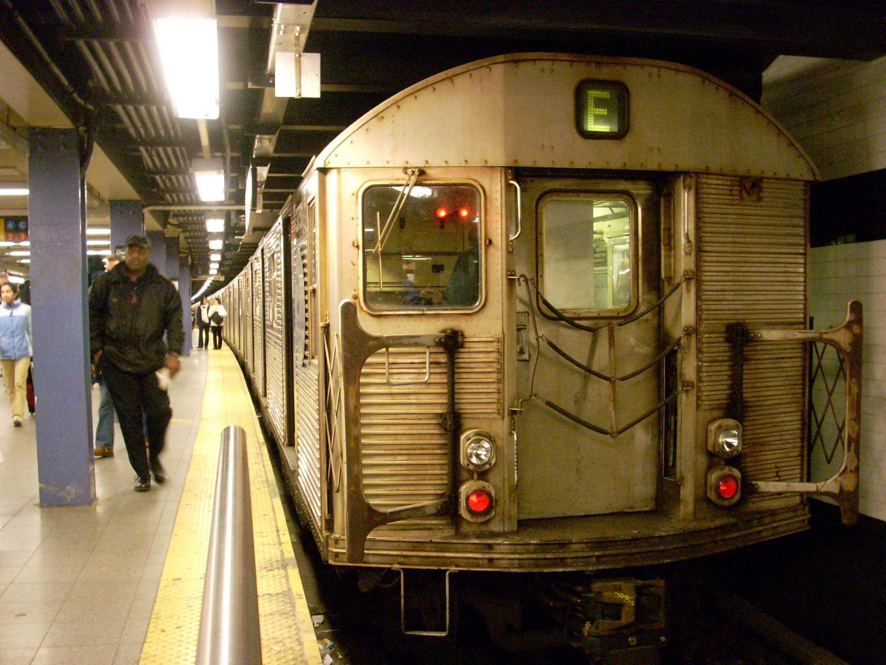 R32 E train at Chambers Street-World Trade Center station